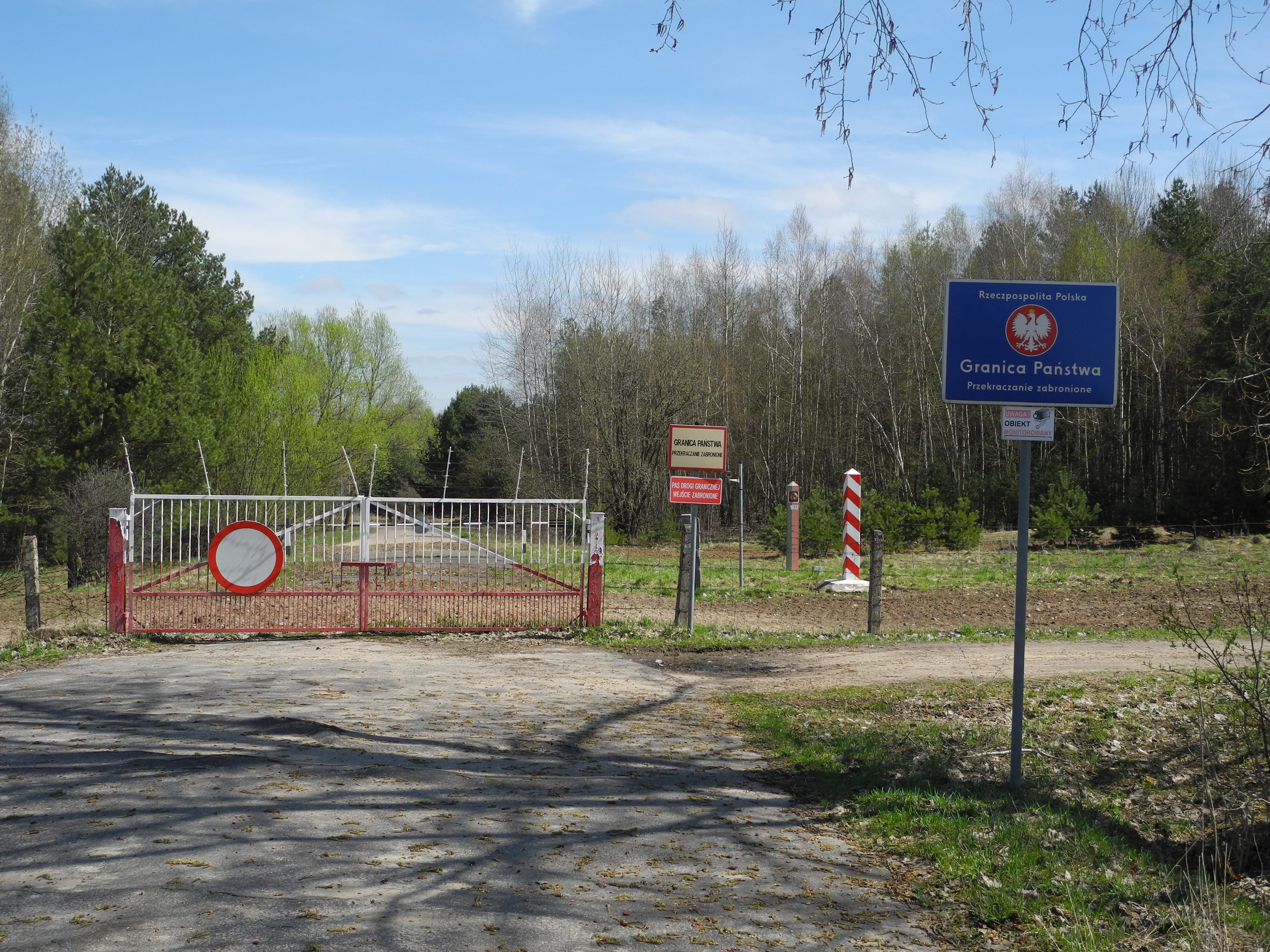 Belarus-Poland border in Krynki, Podlaskie Voivodeship, April 2013